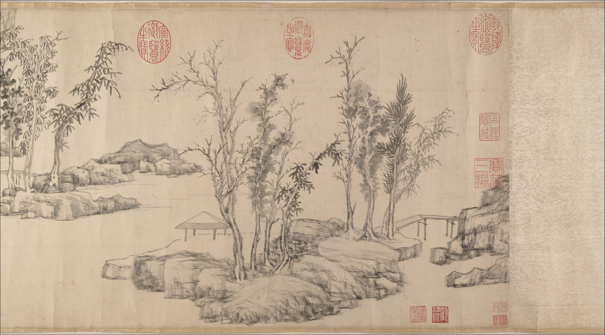 China; Handscroll; Paintings